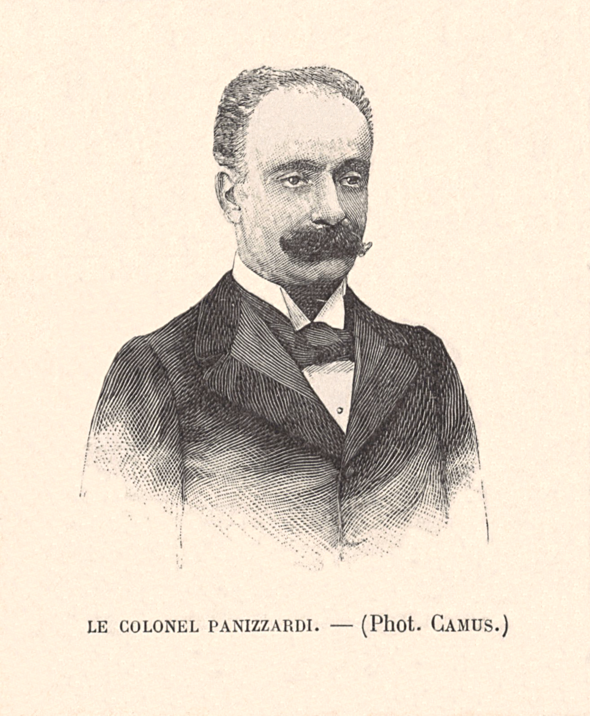 Colonel Alessandro Panizzardi, military attaché of the Kingdom of Italy Embassy to Paris in 1894, involved in the Dreyfus Affair. Press engraving, from a photograph.